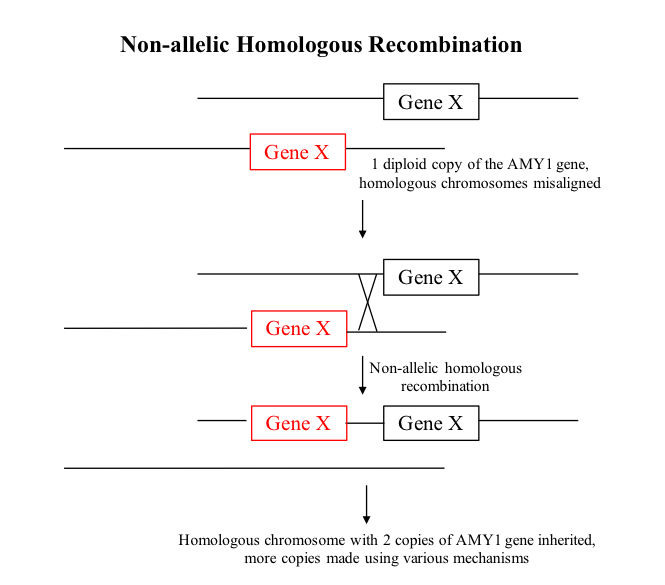 Diagrammatic representation of non-allelic homologous recombination. Here, Gene X represents the gene of interest and the black line represents the chromosome. When the two homologous chromosomes are misaligned and recombination occurs, it may result in a duplication of the gene.